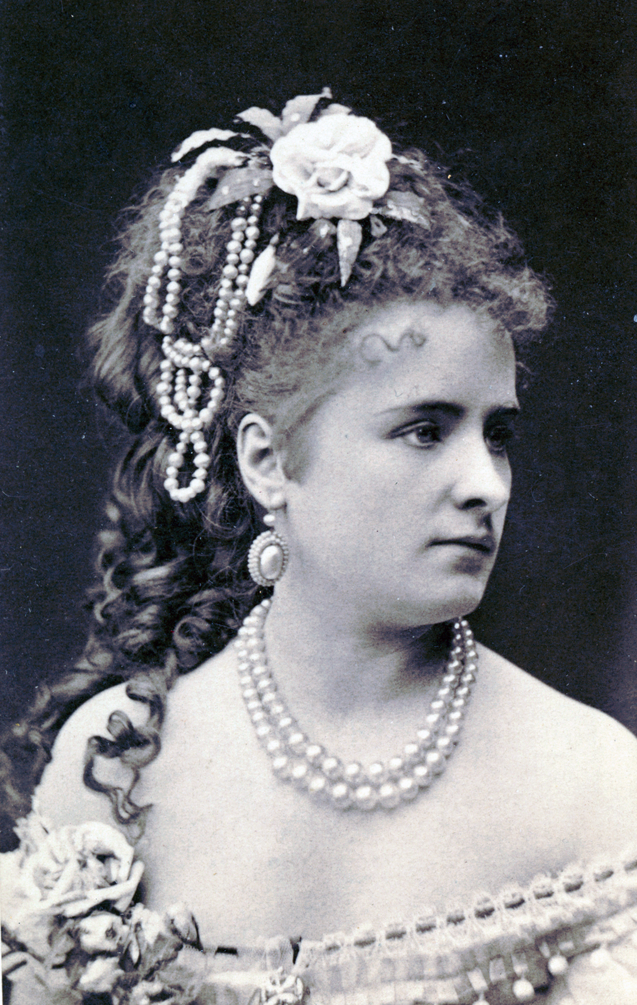 Swedish actress Sophie Cysch. Image from "Svenskt porträttgalleri / XXI. Tonkonstnärer och sceniska artister (biografier af Adolf Lindgren & Nils Personne)"